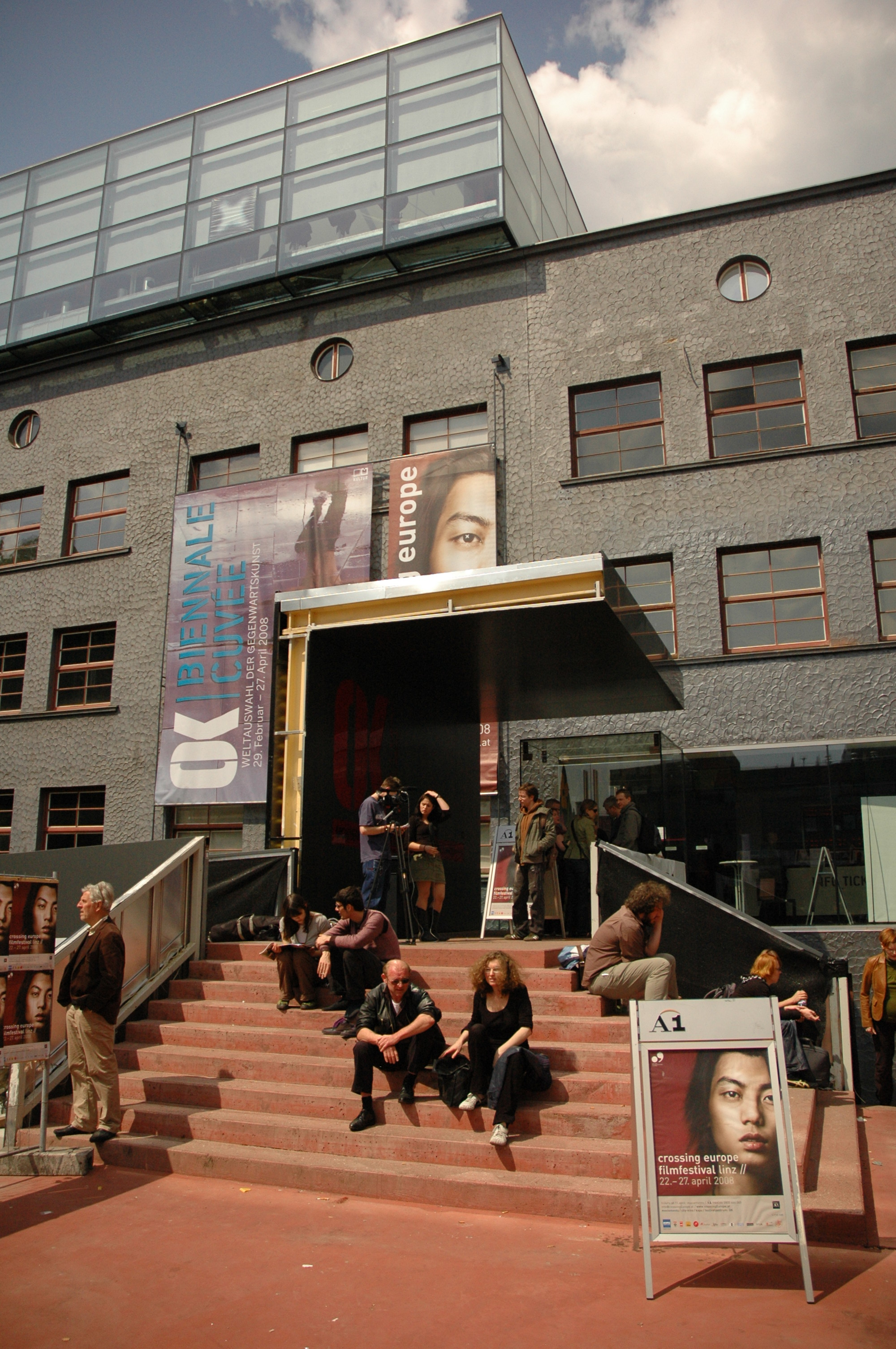 The "O.K. Centrum für Gegenwartskunst" (O.K. Center for contemporary Arts) and the Moviemento Cinema (inside the building) in Linz; the center of the Crossing Europe Film Festival